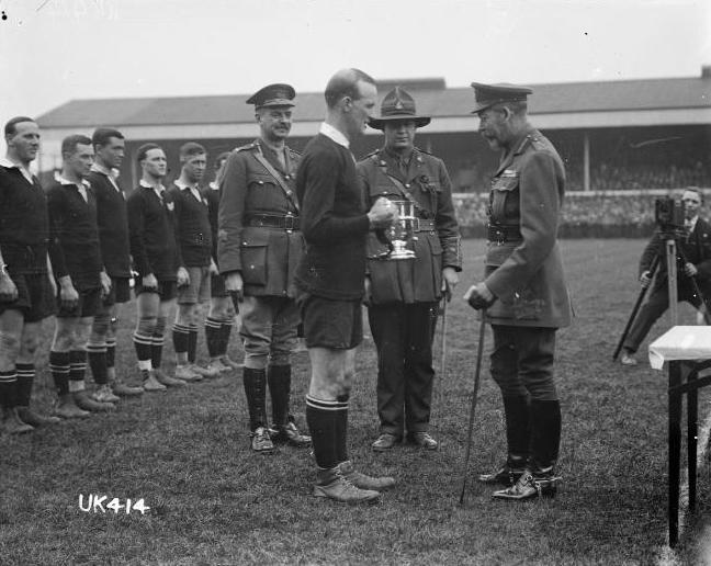 King George V presents a cup to the captain of the winning New Zealand Services Rugby Team, London, Apr 1919.Reference number: 1/2-014210-G1 b&w original negative(s). Dry plate glass negative 4 x 5 inches. Horizontal image.Part of Royal New Zealand Returned and Services’ Association: New Zealand official negatives, World War 1914-1918 (PA-Group-00051)King George V presents the King’s Cup to James Ryan, captain of the New Zealand Services Rugby Team, after the team’s win in the Inter-Services Tournament at Twickenham rugby ground, London in 1919. Major General Charles William Melvill and another officer look on. The team some of whom have fern leaf emblems on their jerseys are standing in a line. A film cameraman appears in the background. Photograph taken April 1919 by Thomas Frederick Scales.